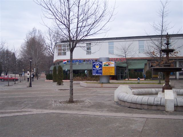 The centre of Montana, Bulgaria.